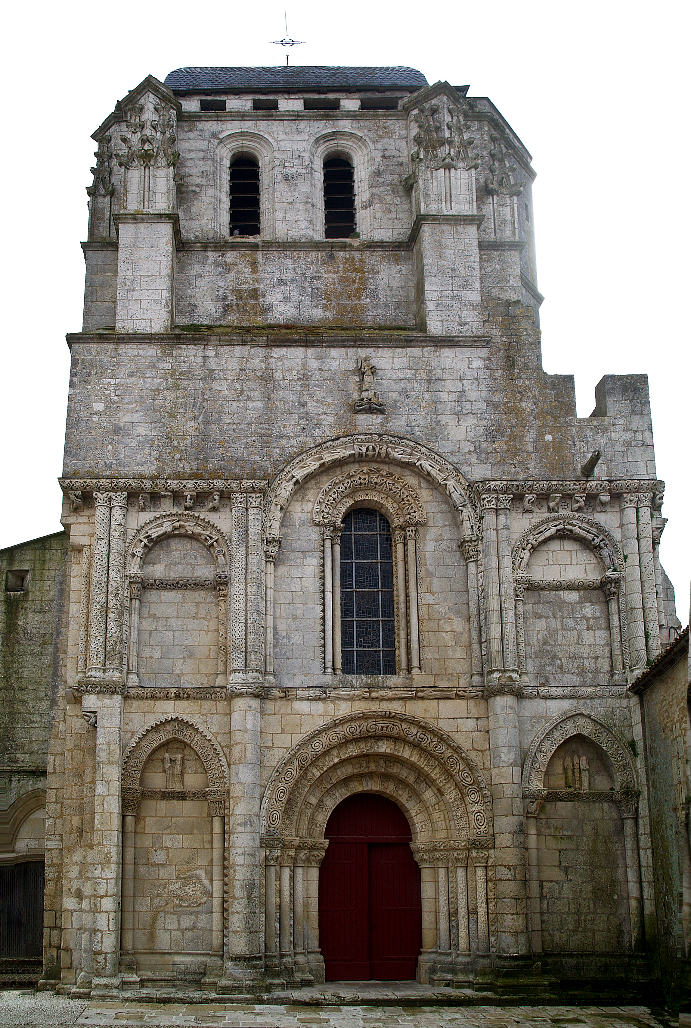 Corme-Royal (Charente-Maritime, France) - Saint-Nazaire church